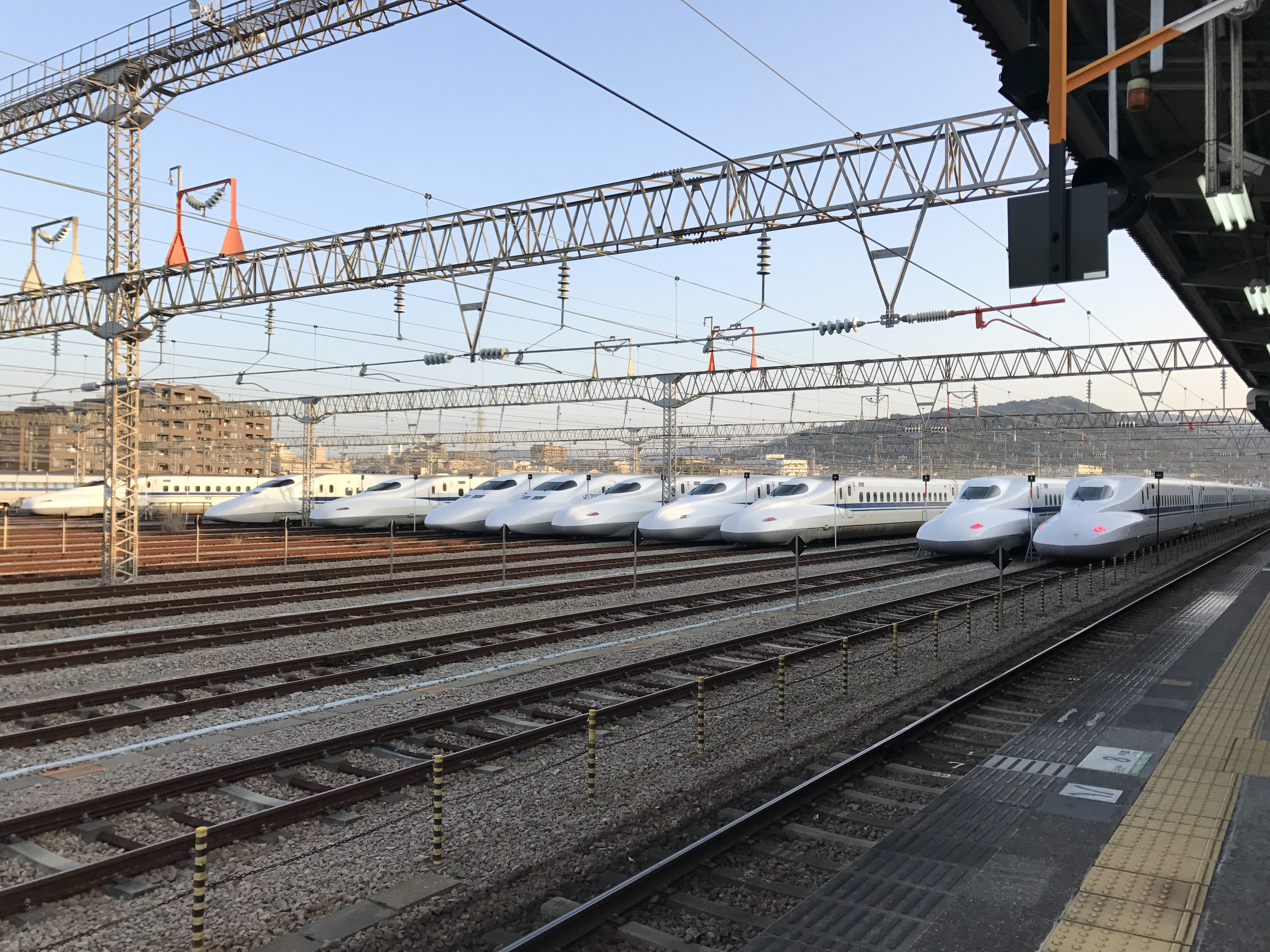 Hakata Car Maintenance Center seen from Hakata-Minami Station